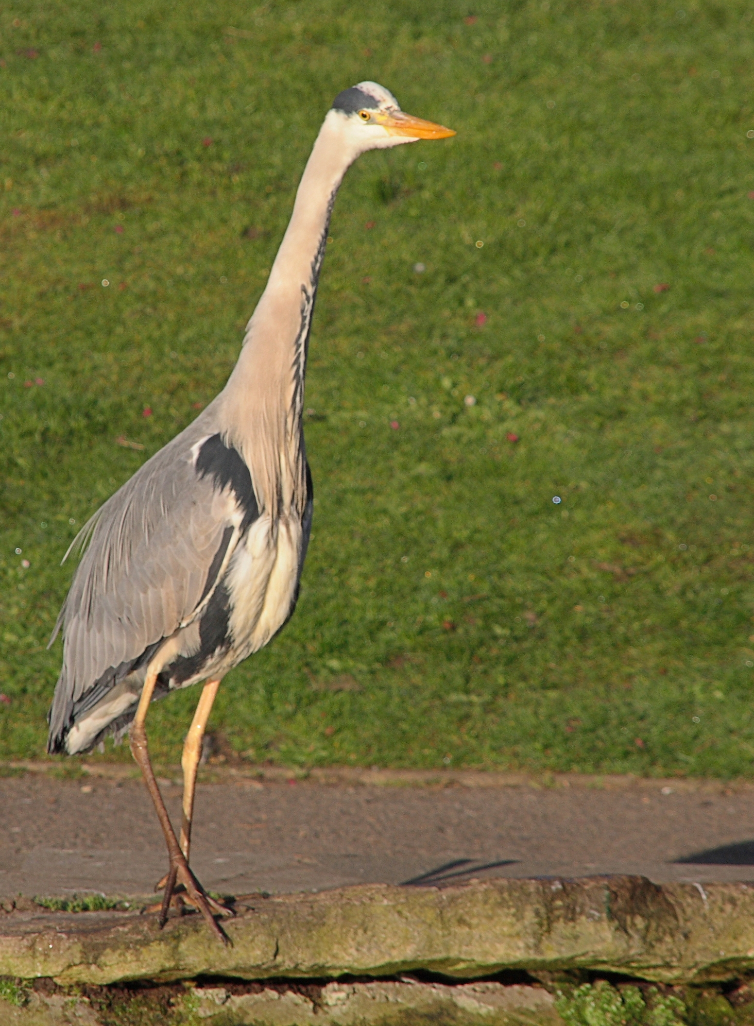 Grey Heron, Ardea cinerea, a resident of Walpole Park, Ealing, W5 London UK.